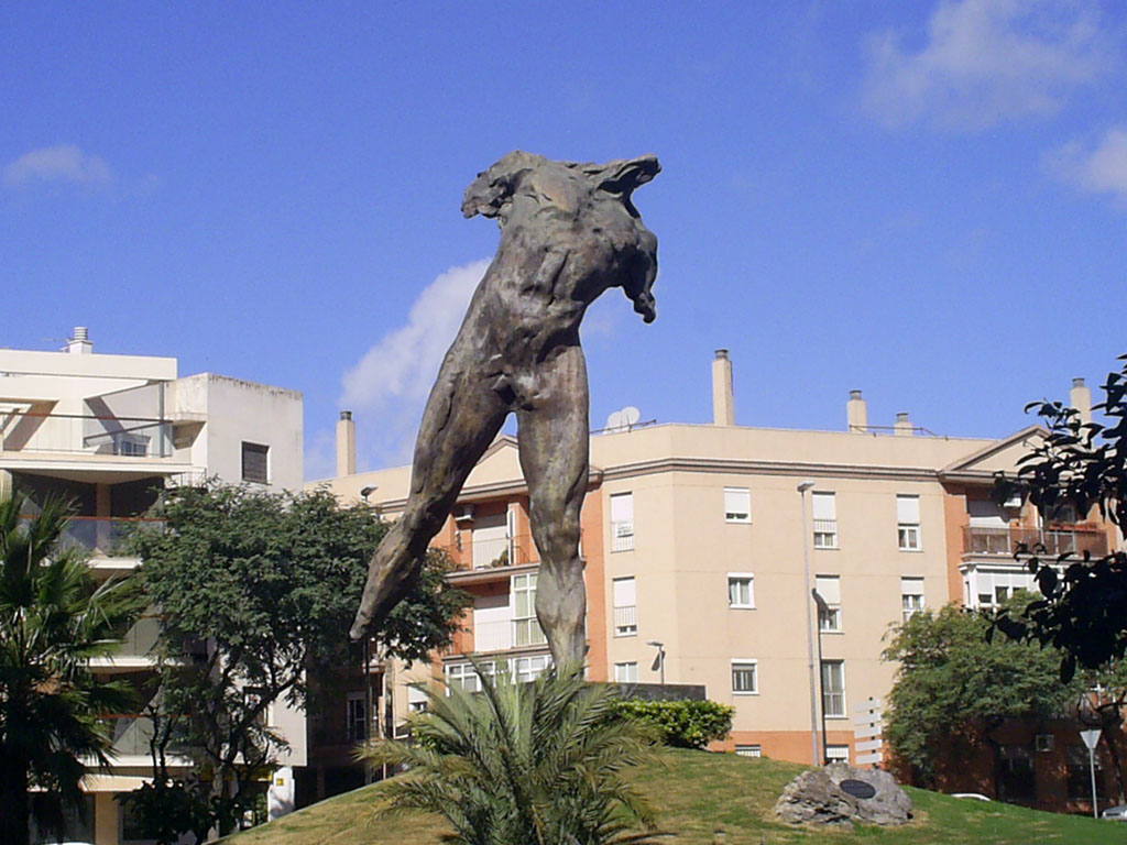 Minotauro, author of esculuta: Victor Ochoa. Picture taken in the public thoroughfare. This sculpture is oriented towards Crete, symbolizes to the Minotauro Hurt after its fight against Teseo and fleeing towards Crete.